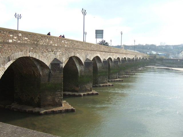 The Long Bridge, Barnstaple, Devon, England. A plaque on it says "Barnstaple Long Bridge, Ministry of Transport, built in the 13th century, widened about 1796 and again in 1963".